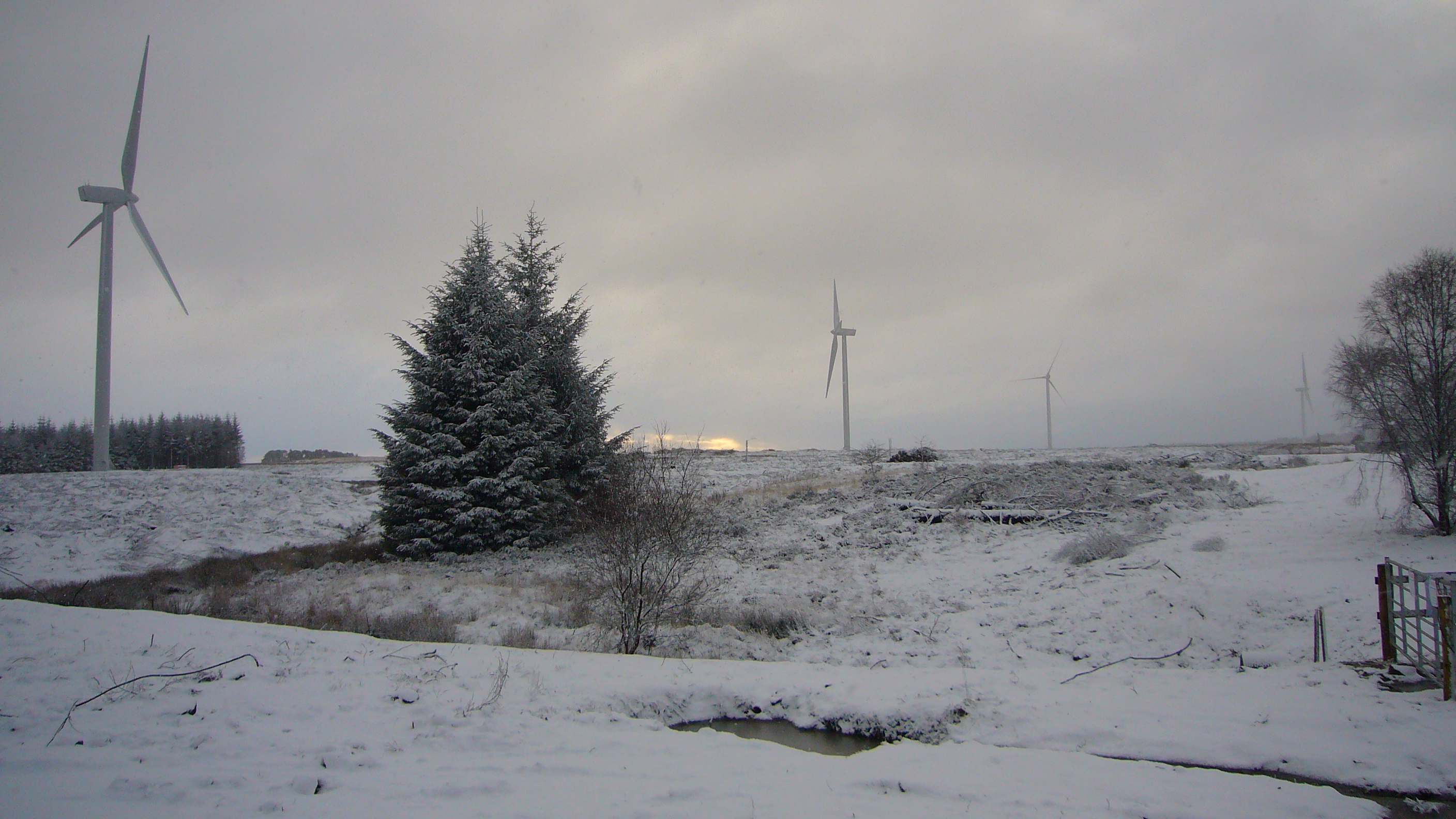 Pates Hill Wind Farm in the snow